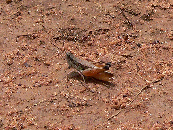 Male Leva soudanensis photographed near Gaya, Niger.